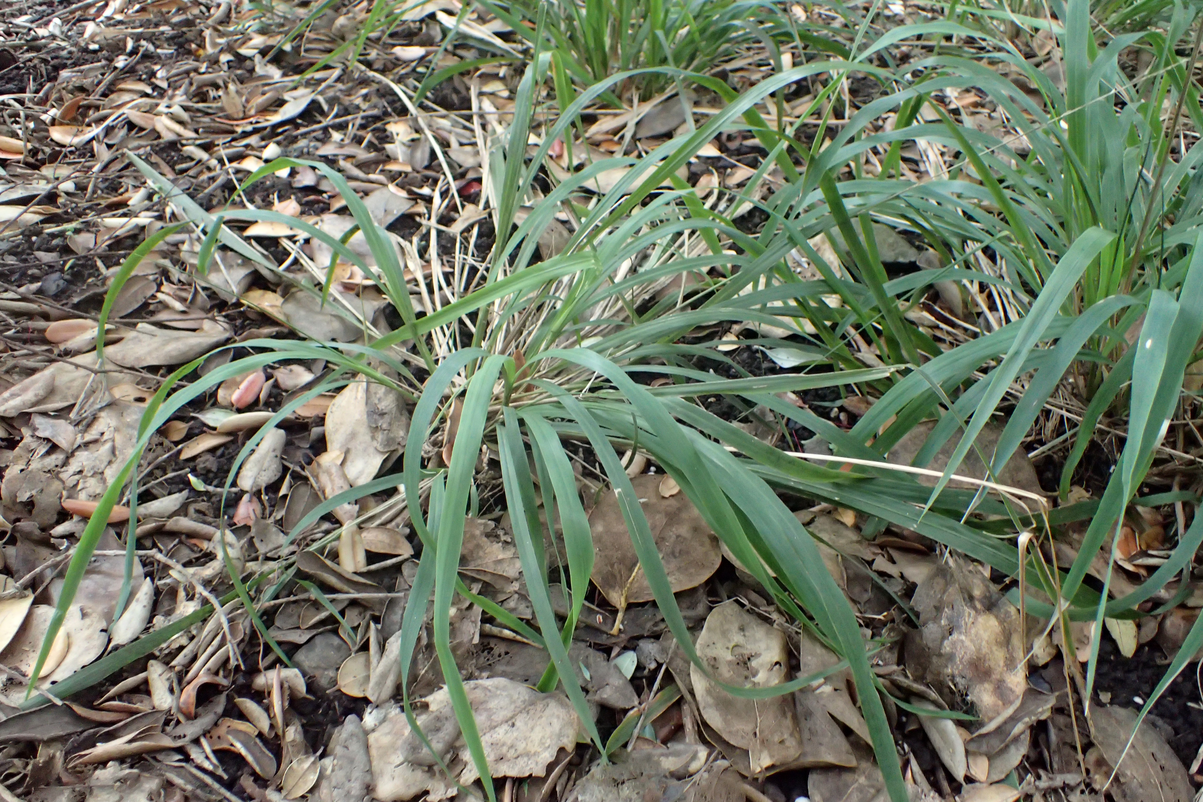 Ehrharta diplax (labelled as Microlaena avenacea) in Auckland Botanic Gardens